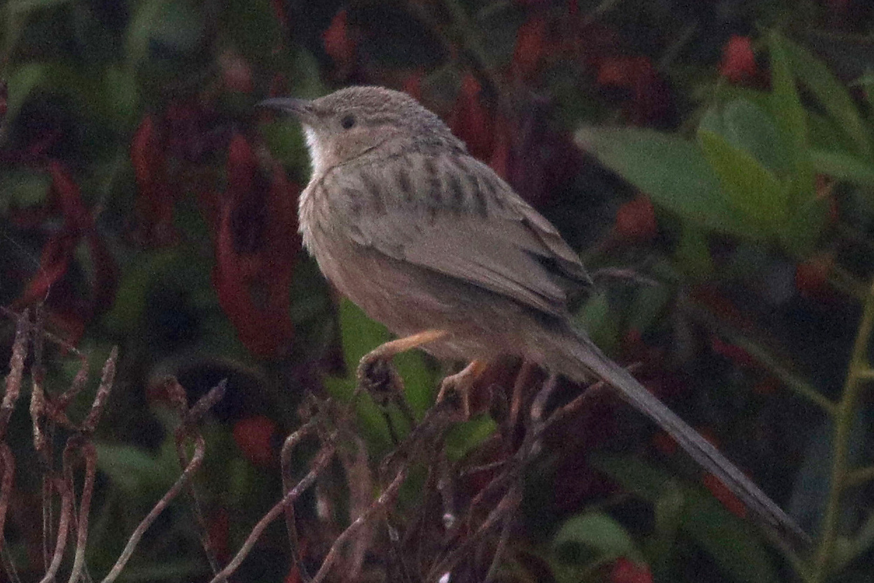 Turdoides huttoni, Afghan Babbler, Kuwait